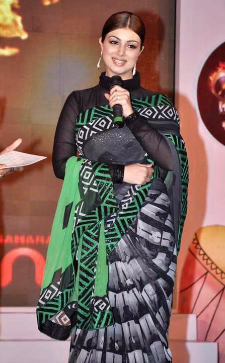 Ayesha Takia at the launch of Sur Kshetra at Taj Lands End, Mumbai